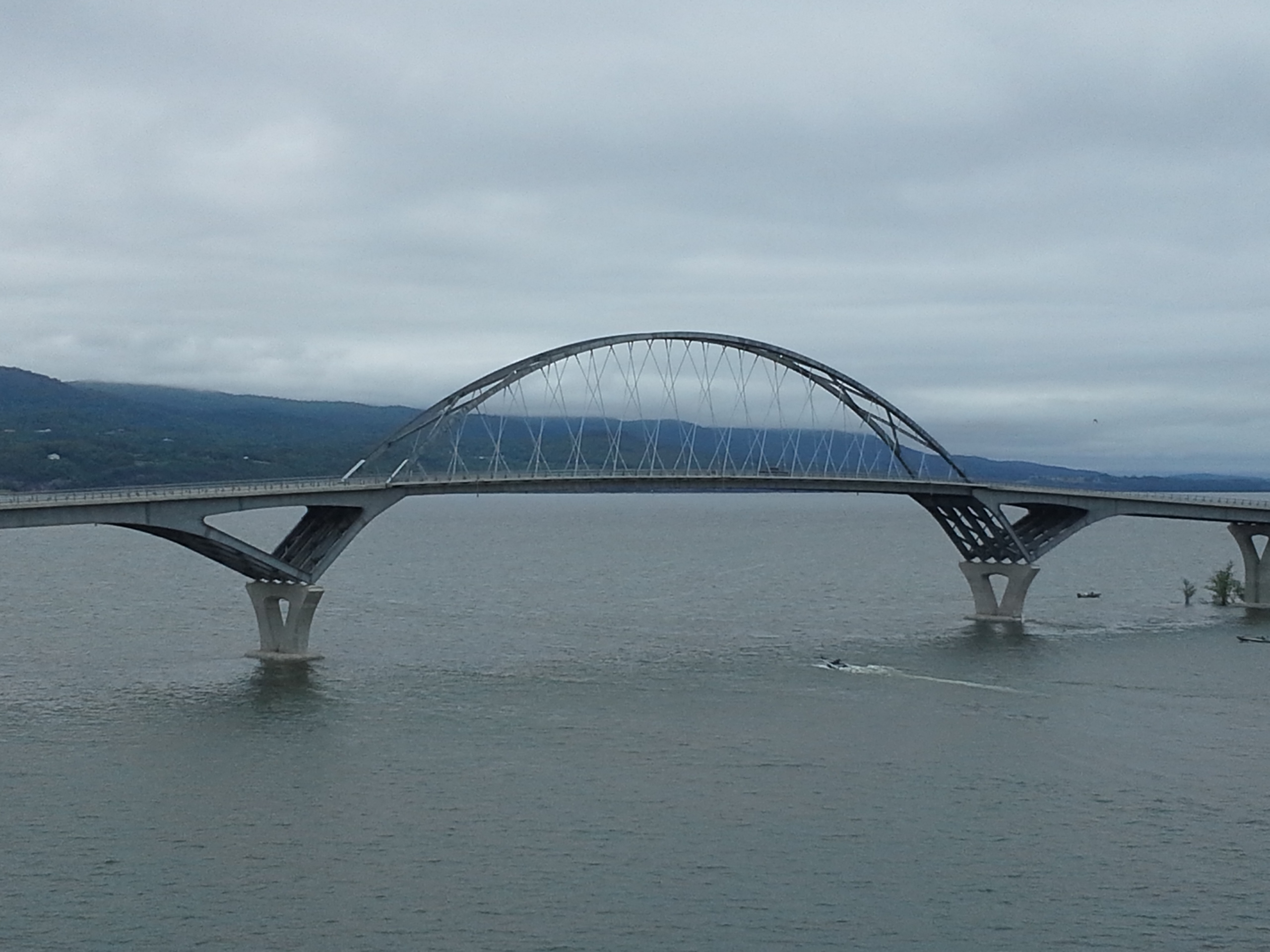 The Lake Champlain Bridge as seen from the Crown Point lighthouse.